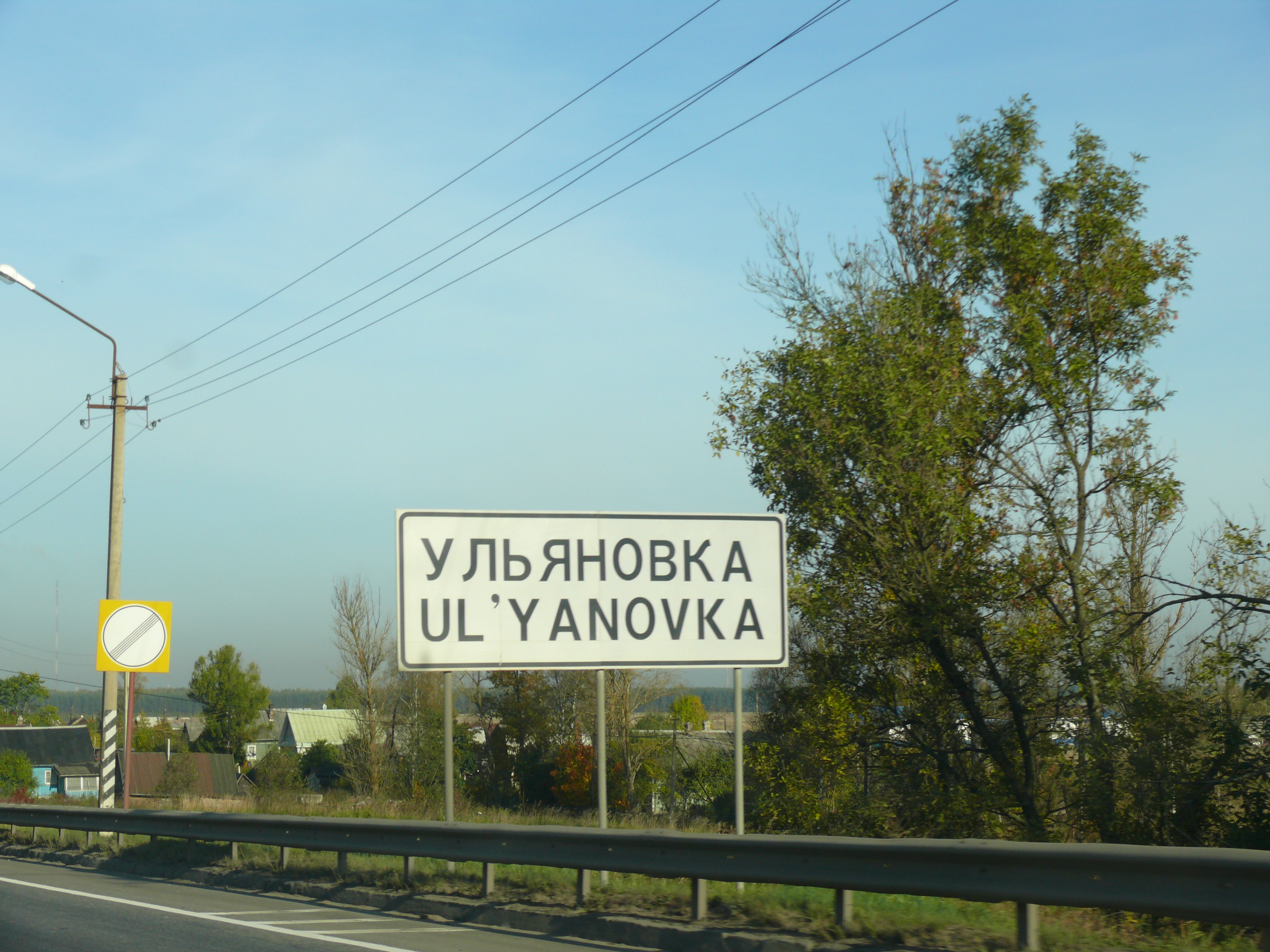 Ulyanovka village. Tosnensky district, Leningrad oblast, Russia